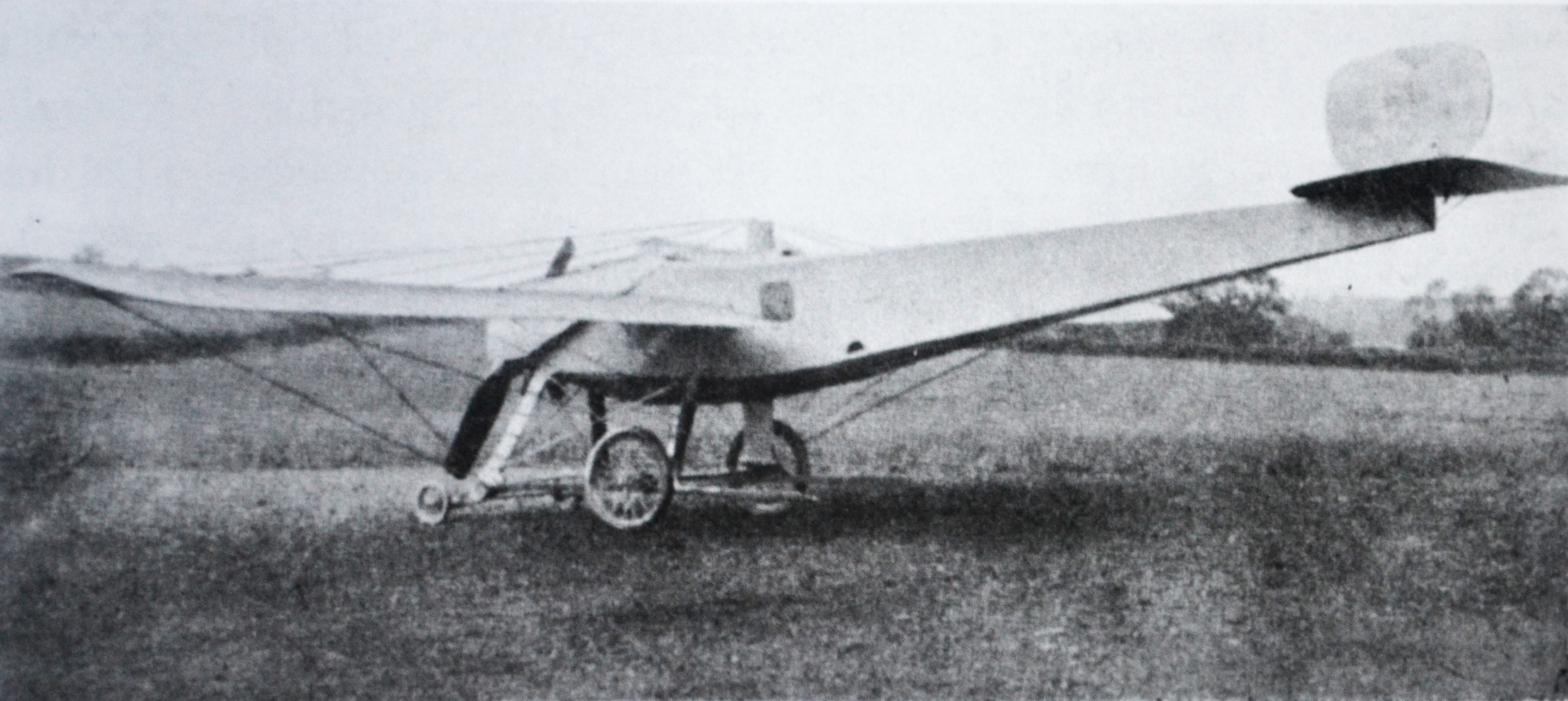 An Italian-built Bristol-Coanda monoplane.